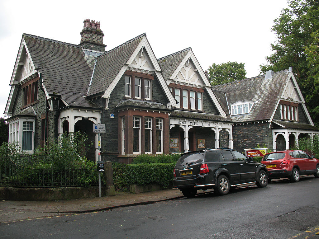 Keswick Museum and Art Gallery in Station Road, Keswick, Cumbria, England, photographed in 2011 before major refurbishment in 2012-2014. Purpose built as a museum in 1898, using local slate stone.